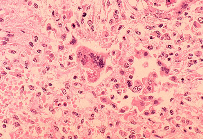 Histopathology of measles pneumonia. Giant cell with intracytoplasmic inclusions.